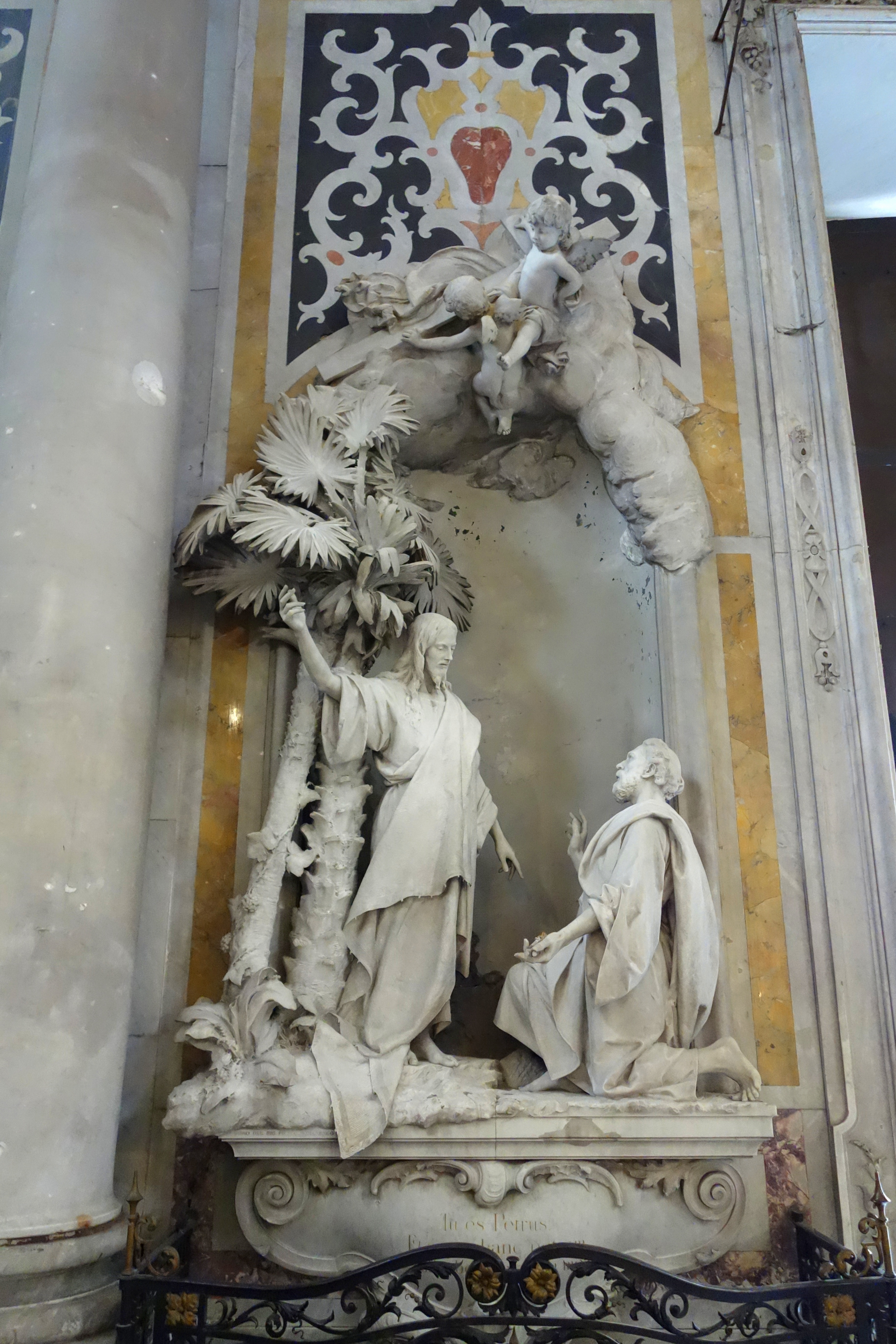 Christ and St. Peter by Michele Sansebastiano (1852–1908), 1896, in Santa Maria delle Vigne (Genoa, Italy). This artwork is in the public domain because the artist died more than 70 years ago.